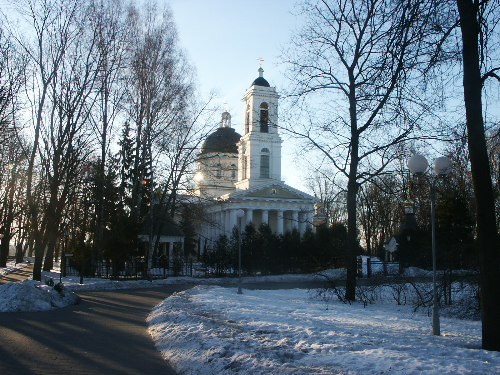 Cathedral of Saint Peter and Paul, Homel, Belarus.